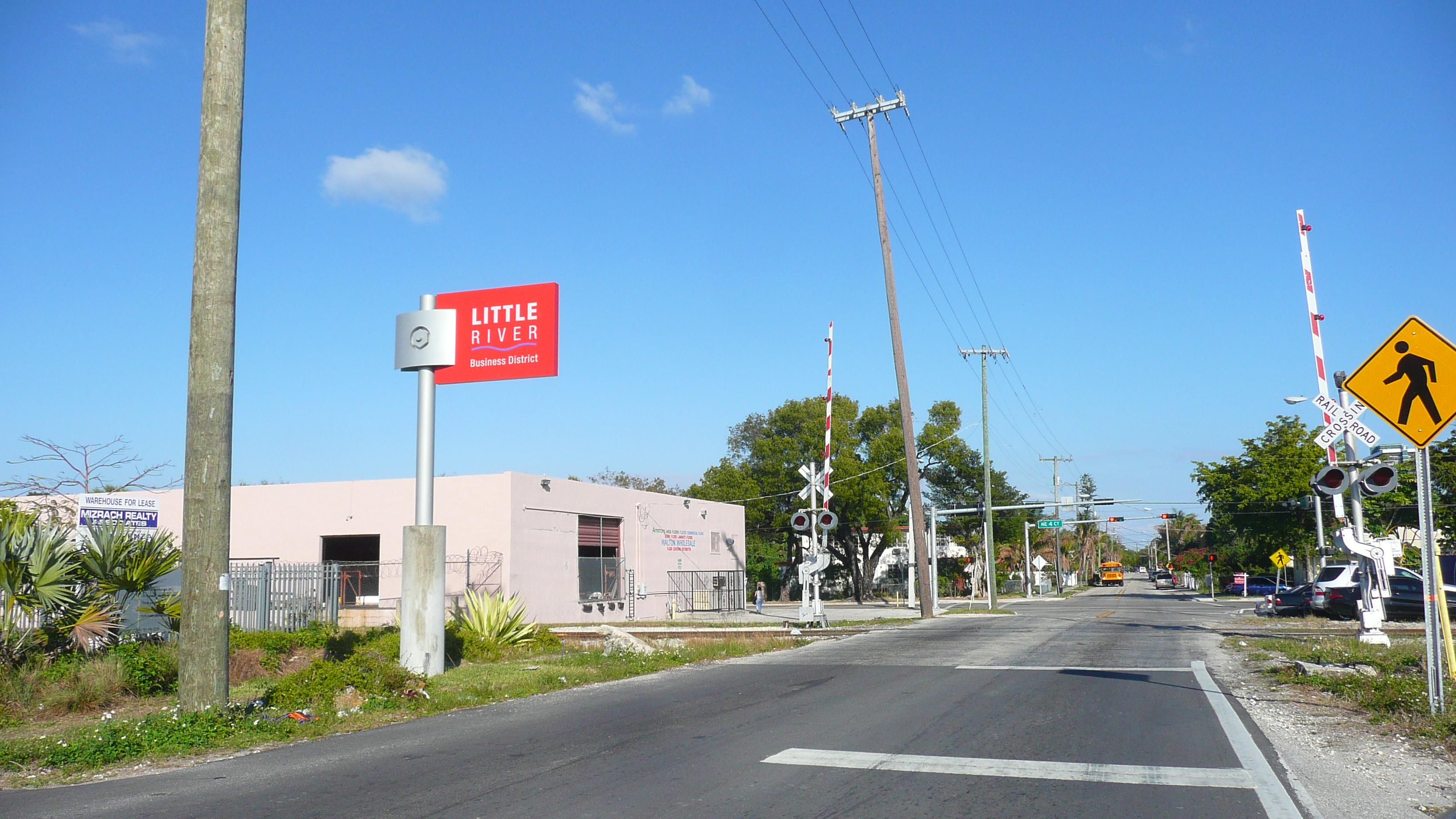 One entrance to the Little River Business District in Miami.